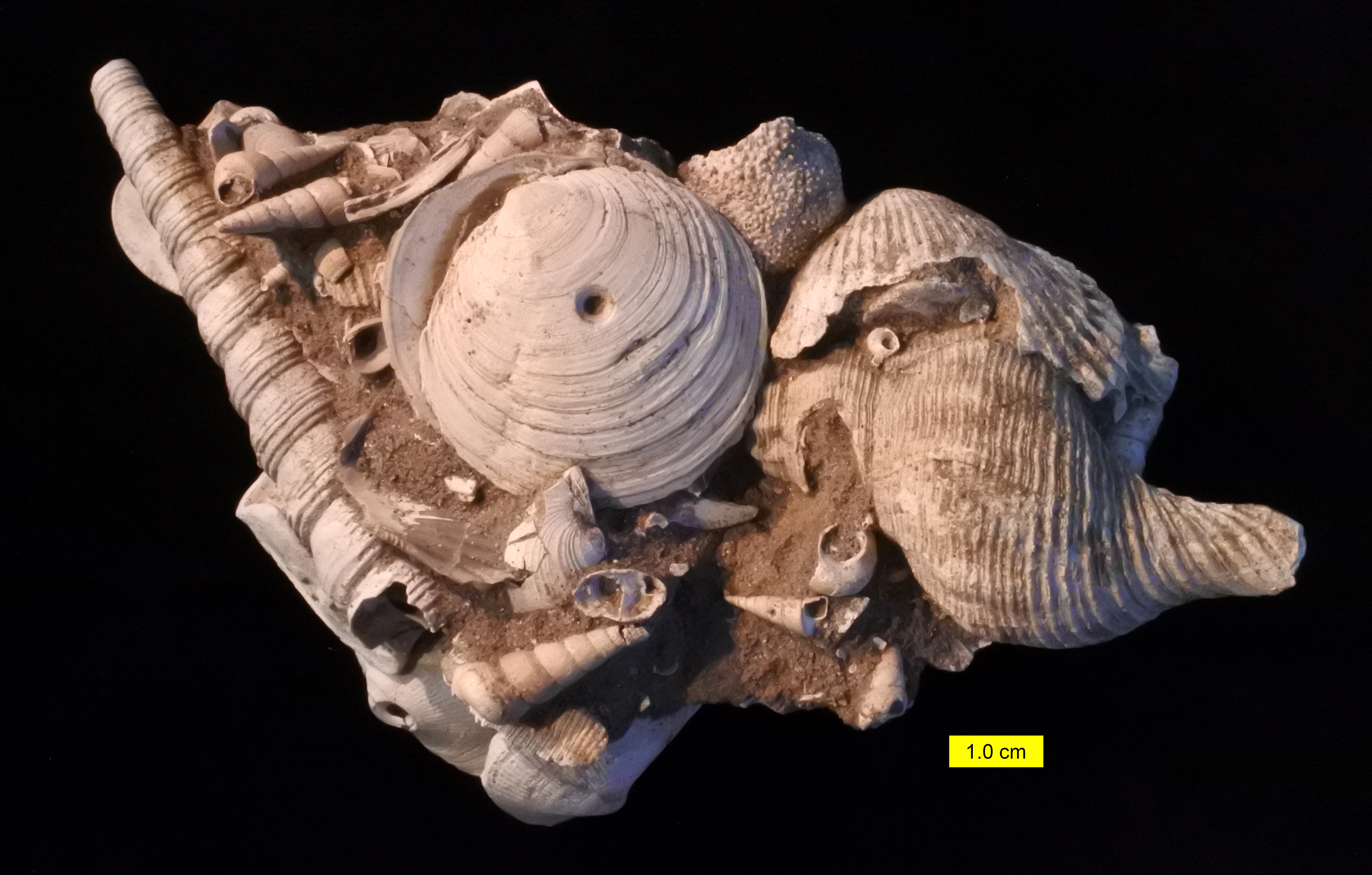 Fossils from the Calvert Formation, Zone 10, Calvert Co., MD (Miocene); collected by Dale Chadwick.